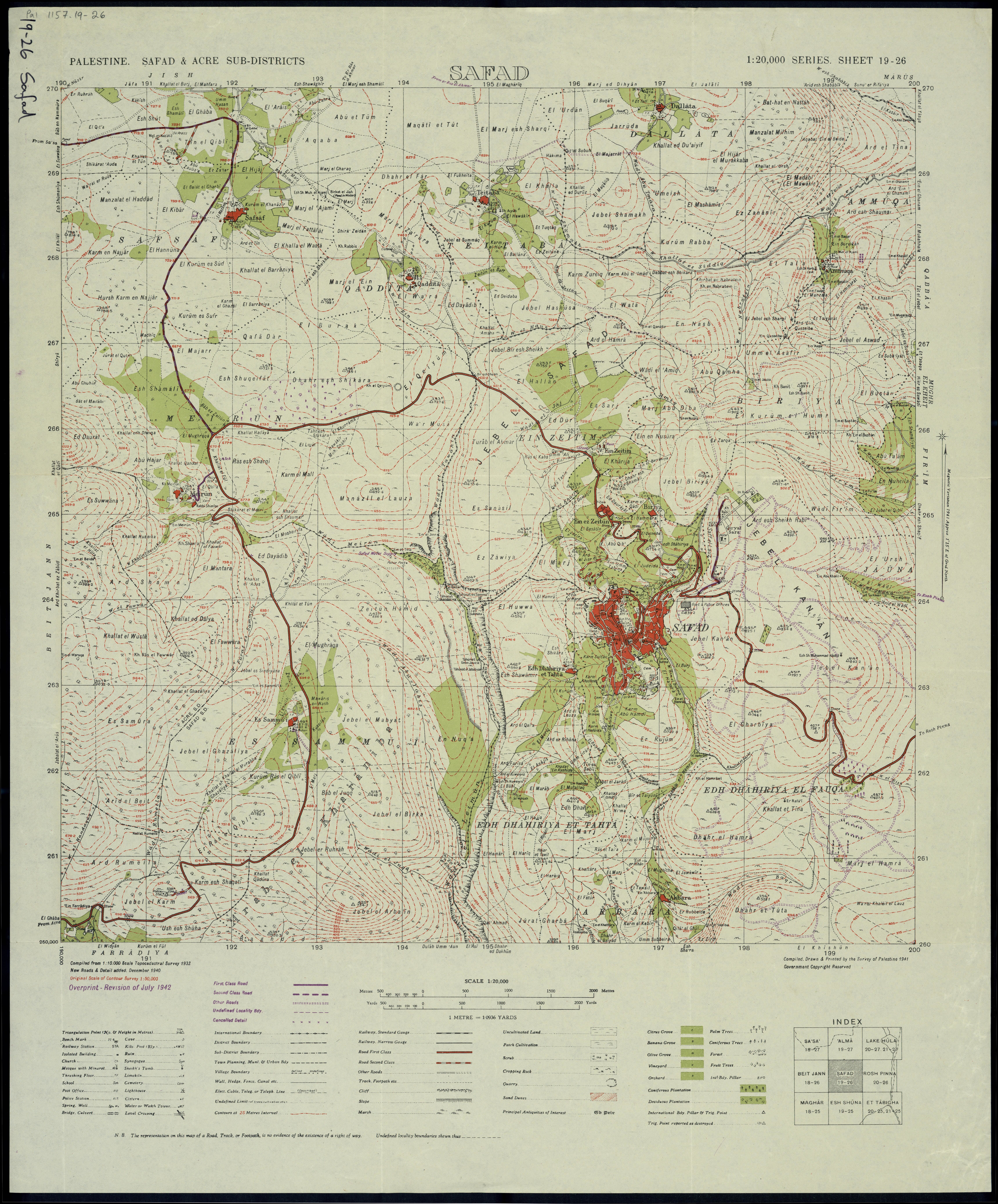 Survey of Palestine maps